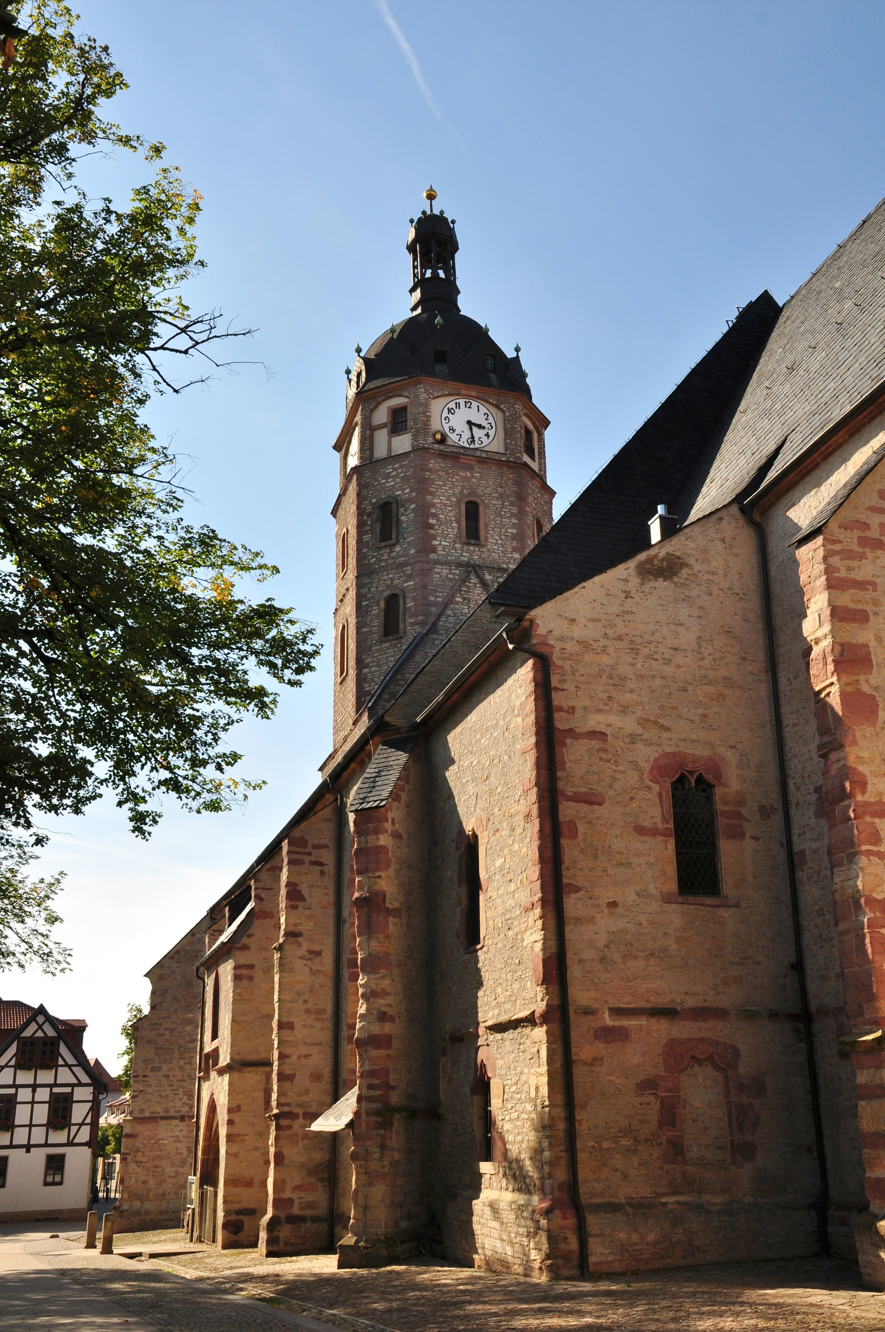 Jacobikirche